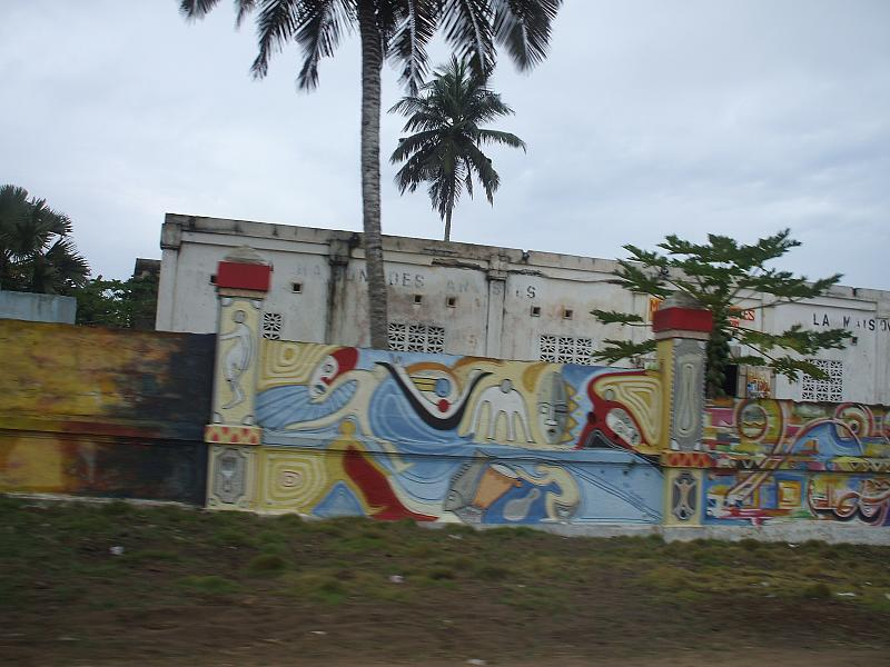 Grand Bassam, Cote d'Ivoire